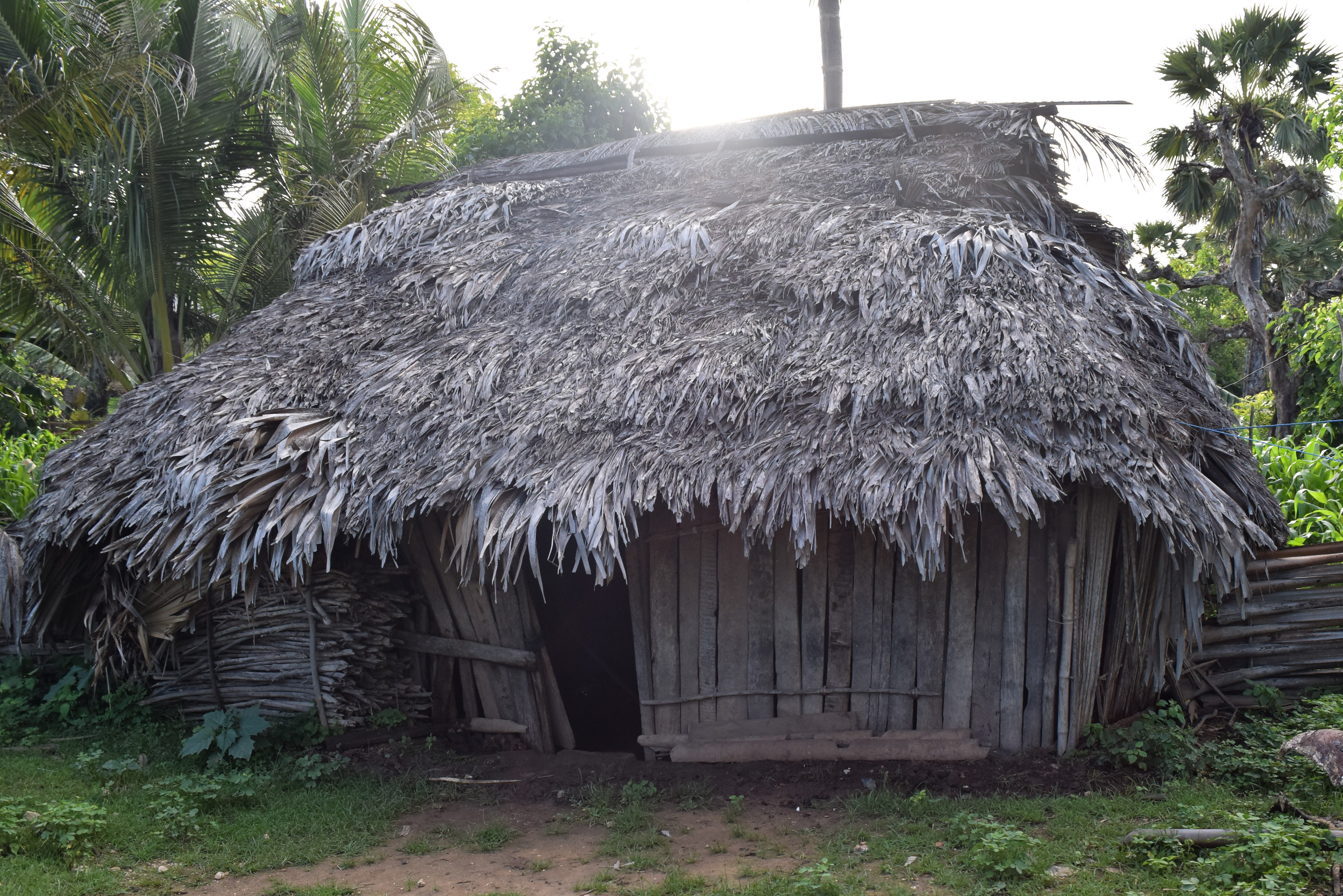 An example of traditional house of Rote Island, East Nusa Tenggara, Indonesia. Most of the families there no longer live in this type of house.